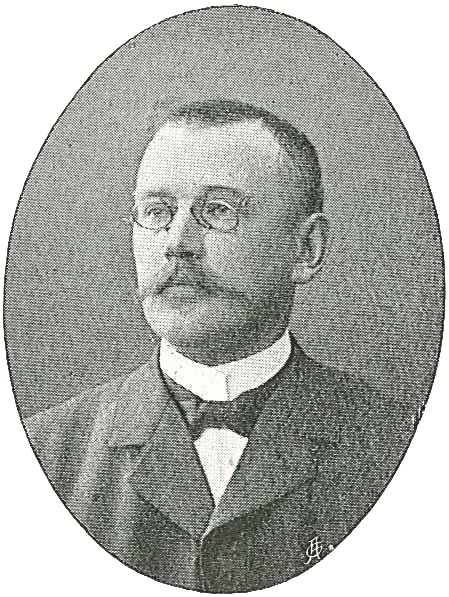 Ernst Wehtje (1863-1936), Swedish industrialist and local politician; chief executive officer of Skånska Cement 1907-1936.